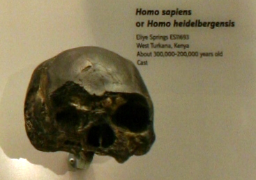 Eliye Springs ES11693 Taken at the David H. Koch Hall of Human Origins at the Smithsonian Natural History Museum.